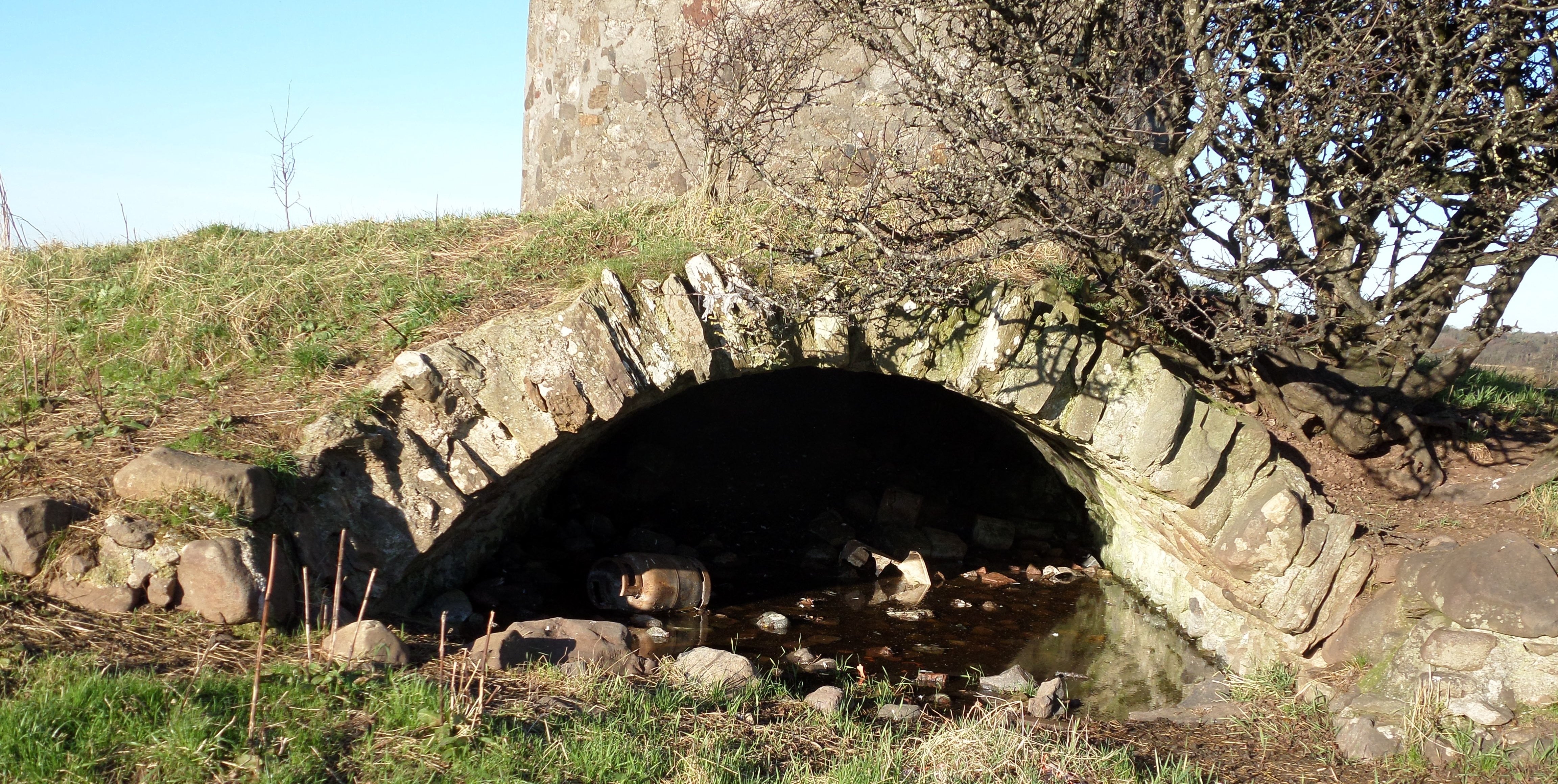 Monkton Vaulted Tower Windmill, South Ayrshire, Scotland. View of the vault externally. Later adapted as a dovecote.